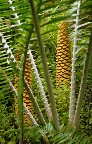 Encephalartos villosus male cone in Teplice Botanical Garden (North Bohemia, the Czech Republic)